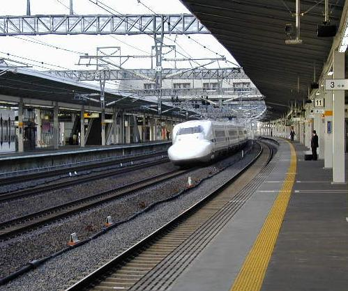 Maibara Station, Japan, April 2002